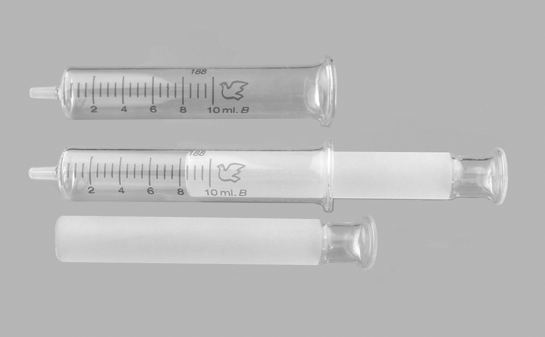 This is a syringe made entirely from glass, with no parts made from metal, nor any other material. The plunger is made with a ground glass surface, which mates with such precision with the barrel that no liquid can escape.